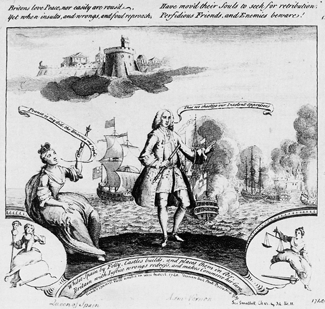 English Satirical Print - Spain builds castles in the air, Britain makes commerce her care in the War of Jenkins' Ear.